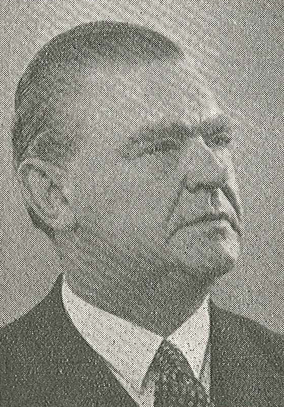 Erik Ljungberg (1884-1958), Swedish businessman and consul for Panama; founder of the record company Sonora.